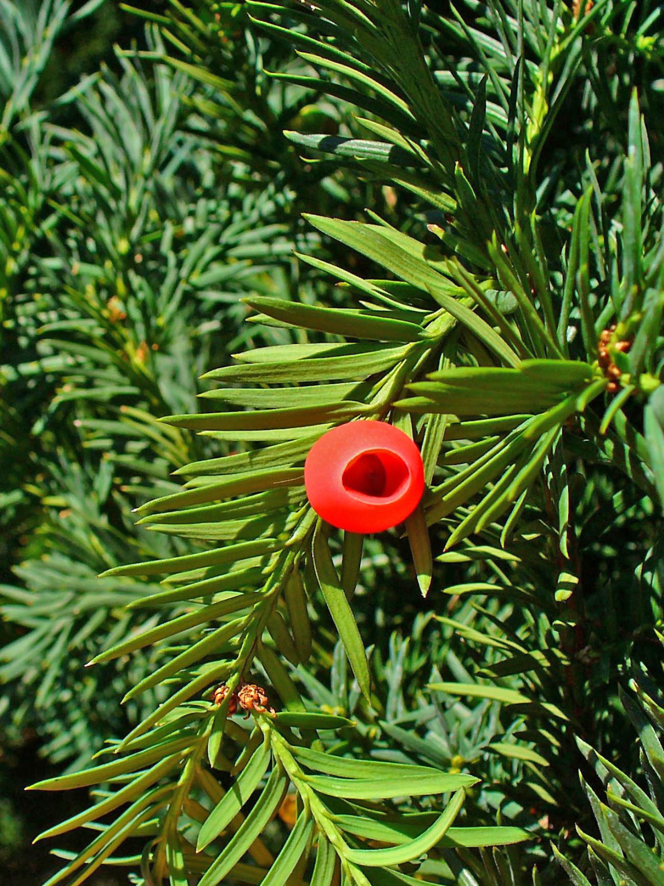 Taxus baccata, Taxaceae, European Yew, arillus. Botanical Garden KIT, Karlsruhe, Germany.